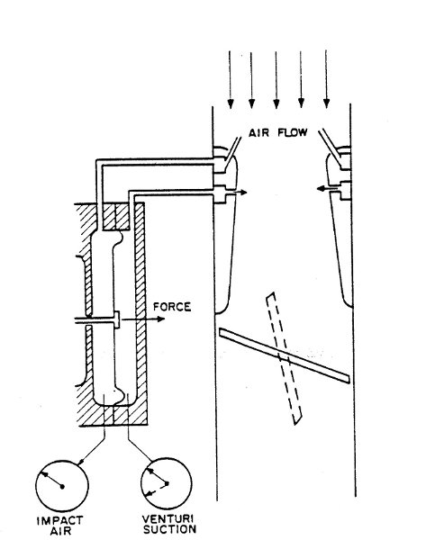 Bendix pressure carburetor chambers A and B